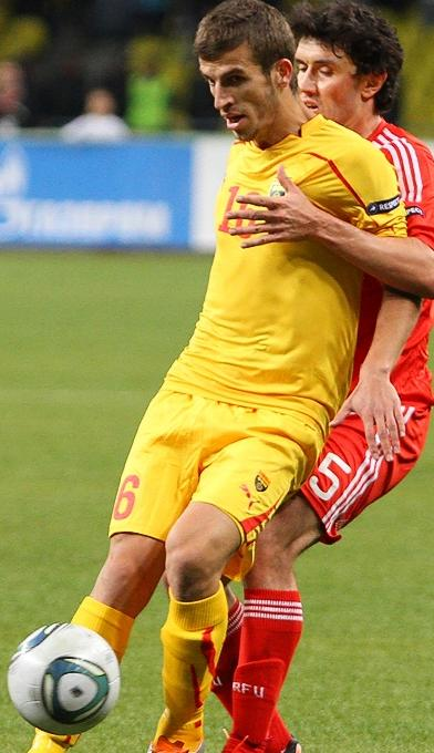 Ferhan Hasani with Macedonia national football team.